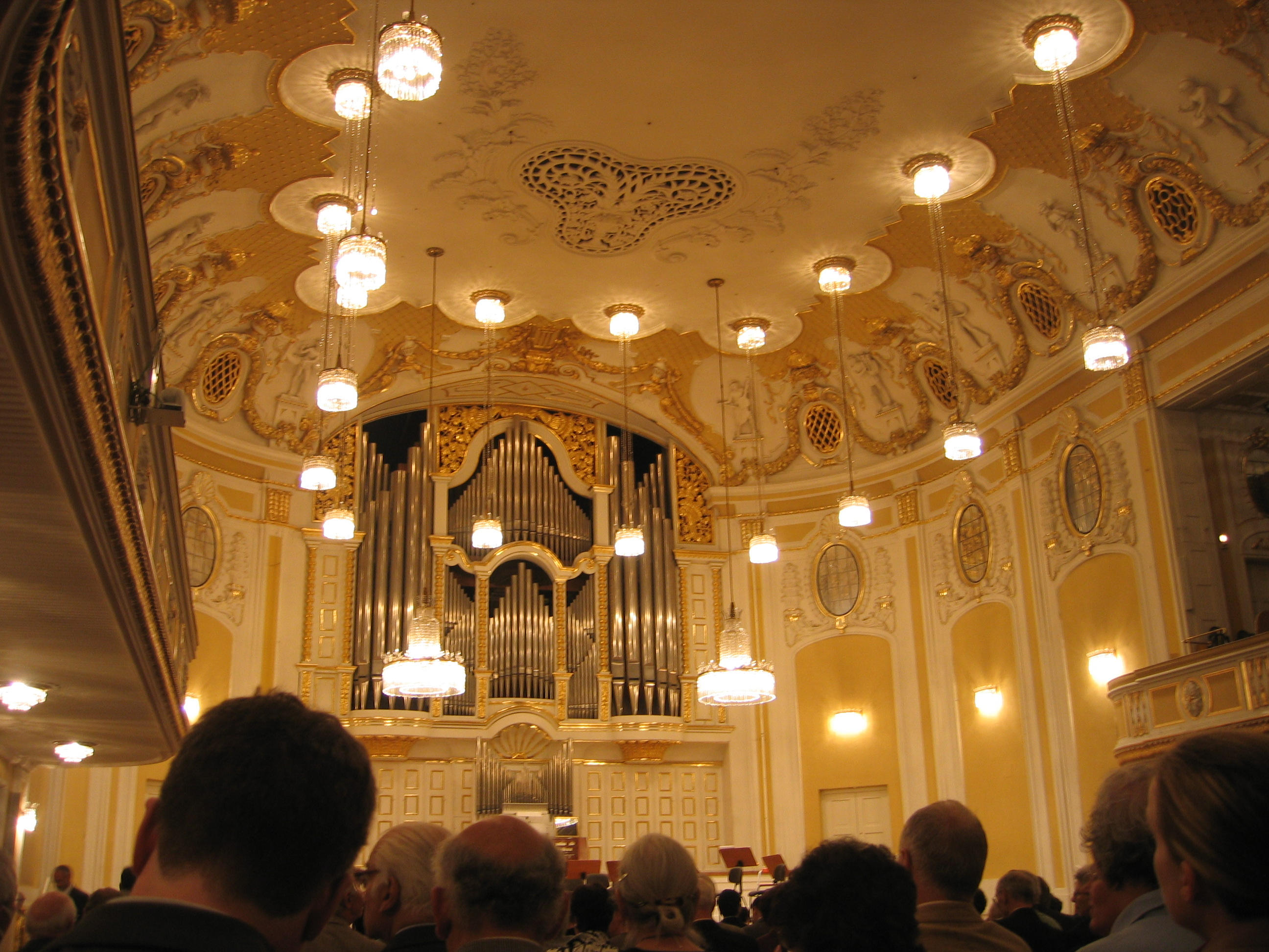 Interior of the small concert hall in Salzburg, Austria called the Mozarteum. Image taken by myself. Douglas Whitaker 04:15, 19 July 2006 (UTC)